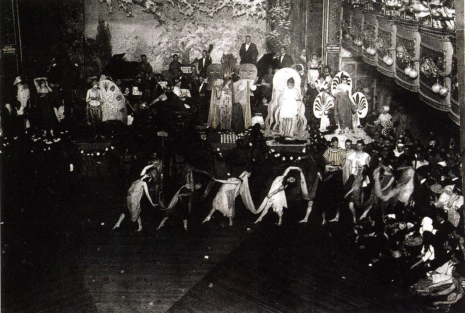 Webster Hall, located in Greenwich Village, hosted several Drag Balls during the 1920s. The events were wildly successful and it was one of the few times when transvestites were allowed to openly dress in drag. The events continued until the Great Depression. Webster Hall is currently a dance club and concert venue but caters to a mostly heterosexual clientèle.